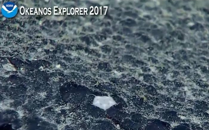 A deep-sea brittlestar of the genus Astrophiura, seen in the abysses of the Pacific ocean by NOAA mission Okeanos Explorer in 2017.